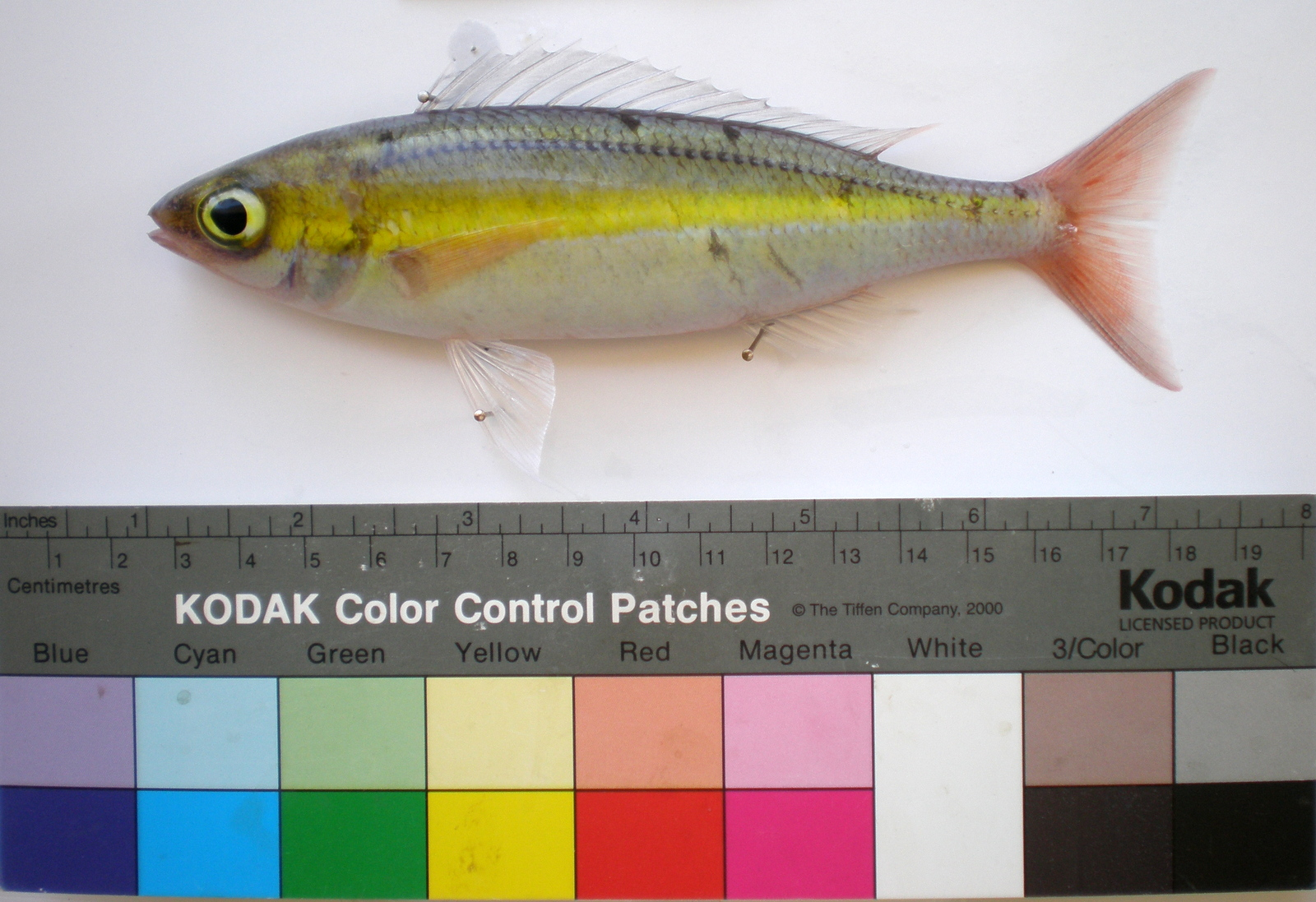 Pentapodus aureofasciatus. From off Nouméa, New Caledonia.